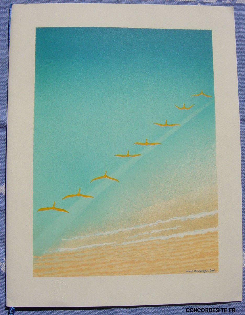 Menu for CONCORDE special flight for his 10th anniversary